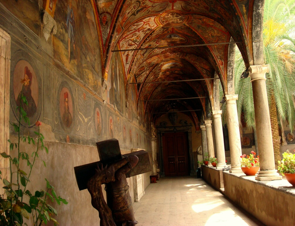 Photo clauster2